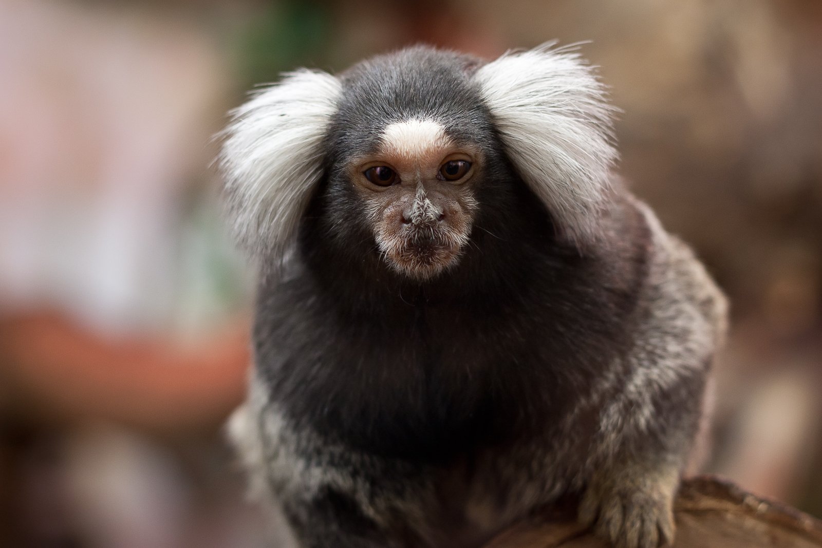 Common marmoset (Callithrix jacchus) in Warsaw Zoo.